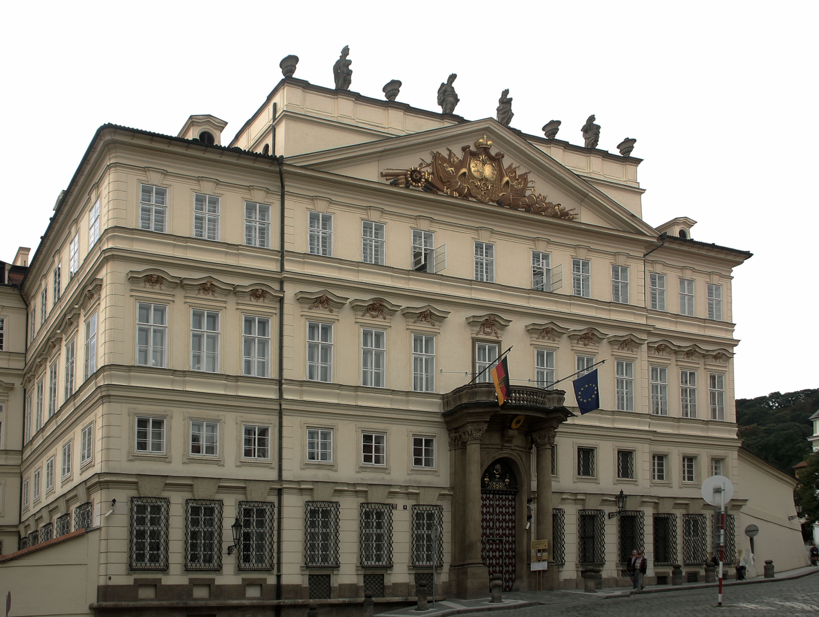 Embassy of Federal Republic of Germany in Prague, Malá Strana, Czech Republic